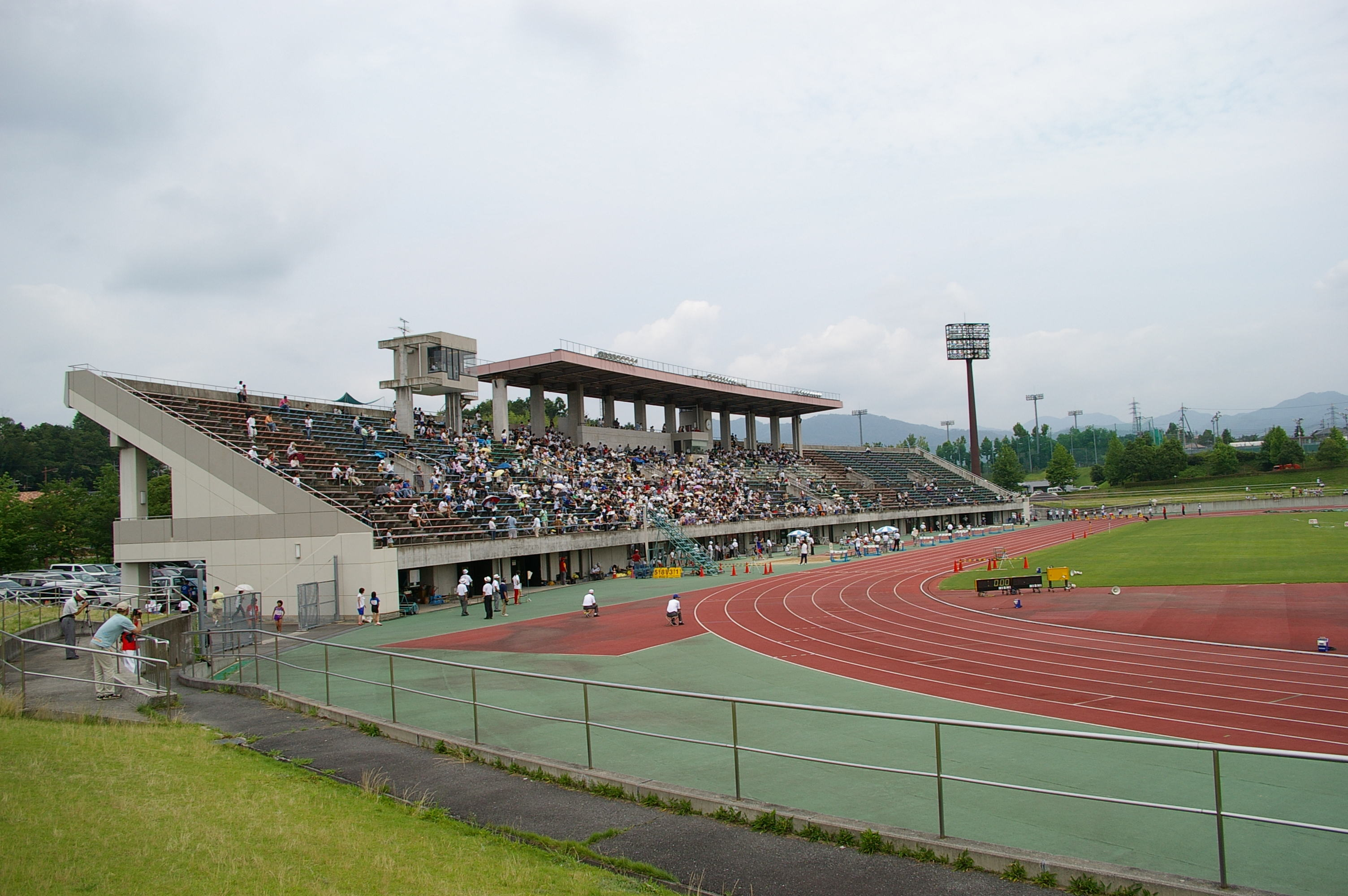 Tsuyama Athletic Stadium.(Okayama-pref/Japan)